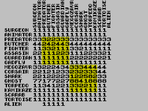 In-game screenshot